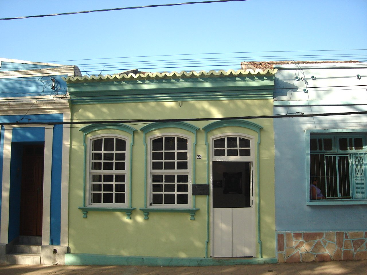 House of the painter Pedro Américo, Areia city, Brasil.